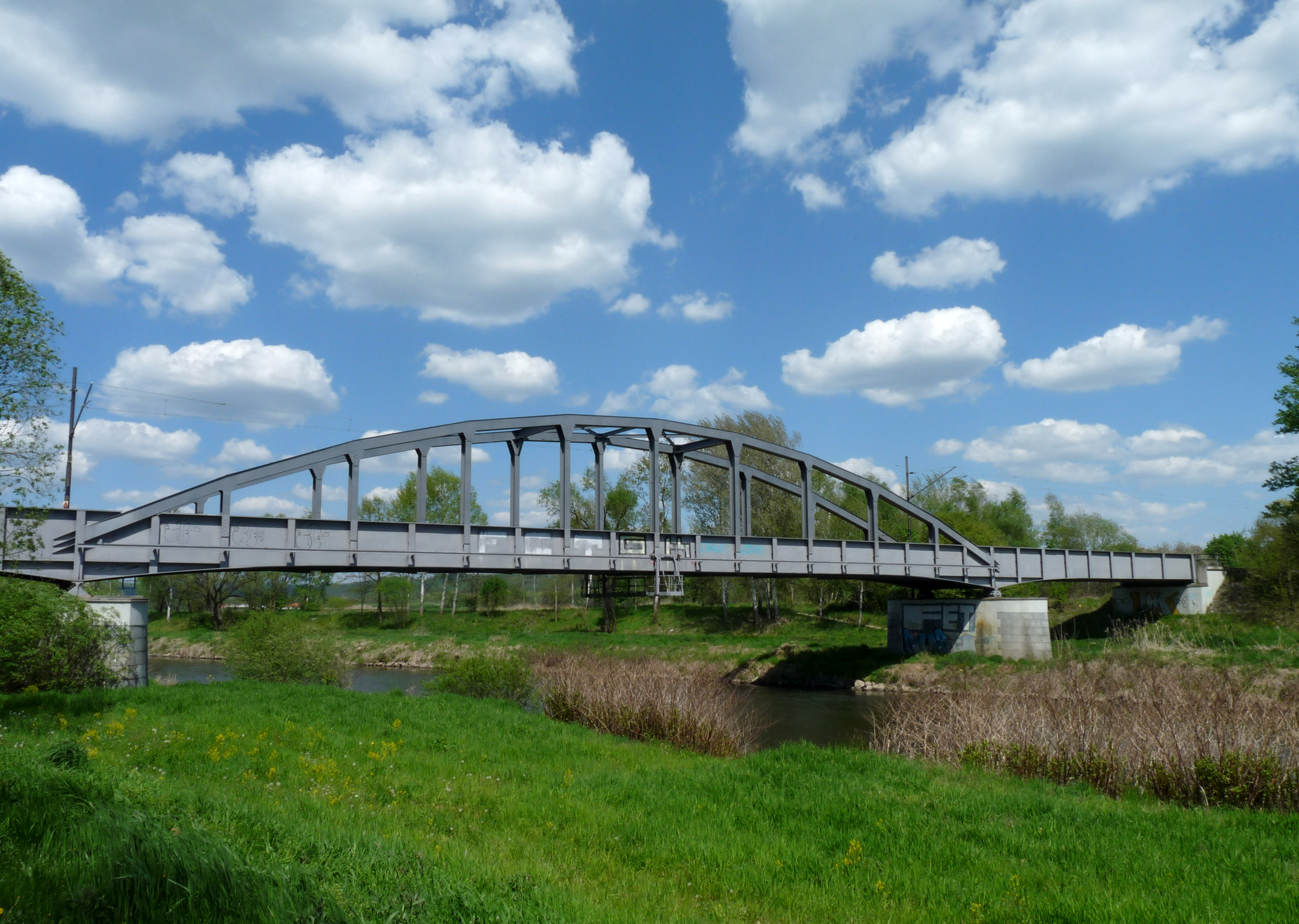 Railway bridge over the Vltava river near Bavorovice, a village near Hluboká nad Vltavou, South Bohemian Region,Czech Republic.